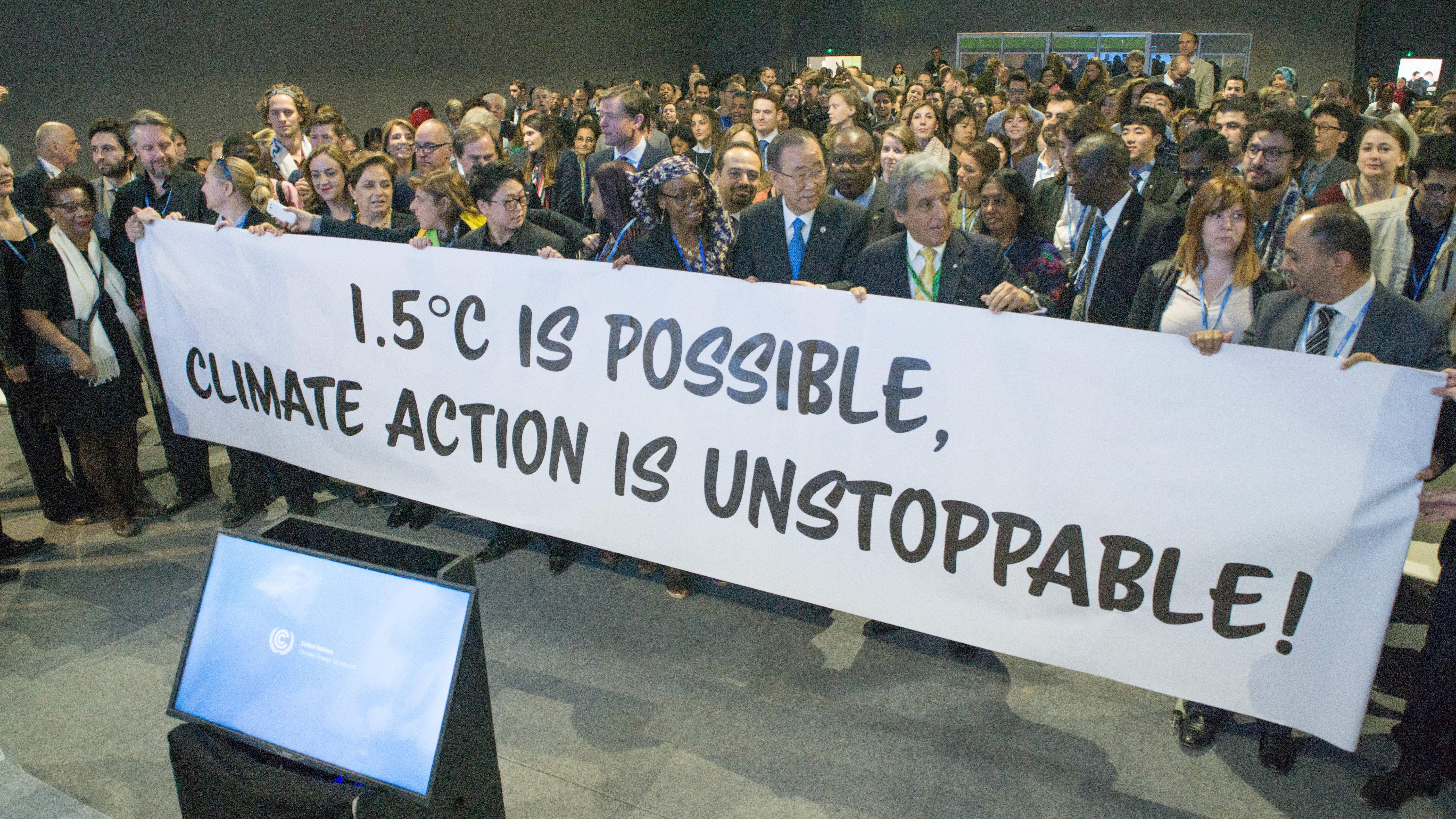 Civil society farewell to UN Secretary-General Ban Ki-moon